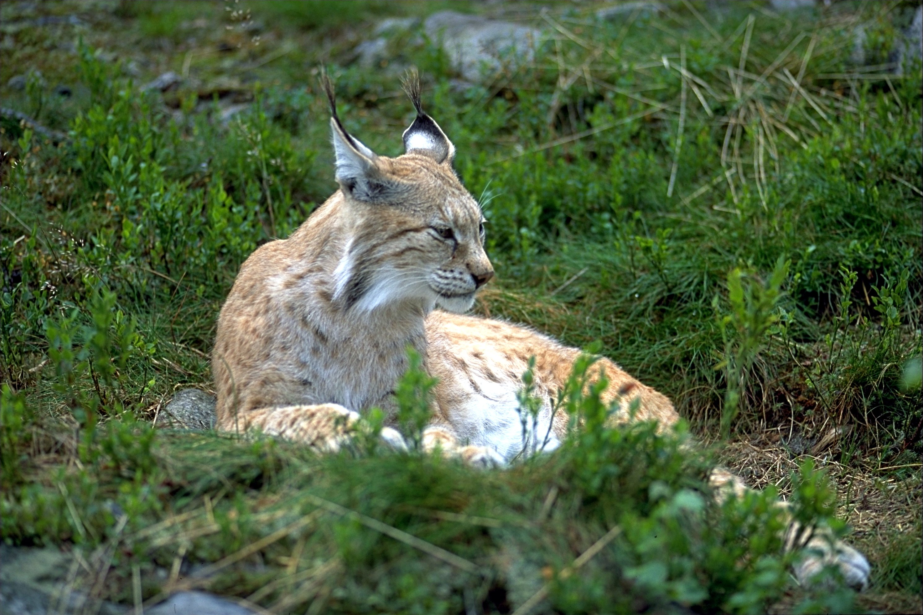 Lynx in Numedal Zoo Photo was taken using the following technique: Film: Fuji Velvia Lens: 2.8/100 Macro Filter: none Body: Minolta 7 Support: none Image with Information in English Bild mit Informationen auf Deutsch